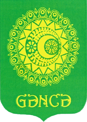 Ganja city coat of arms